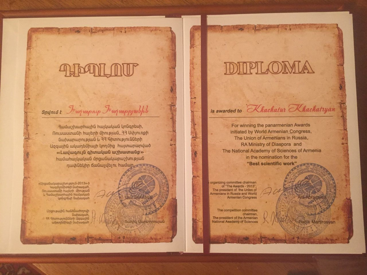 Best scientific work Khachatryan